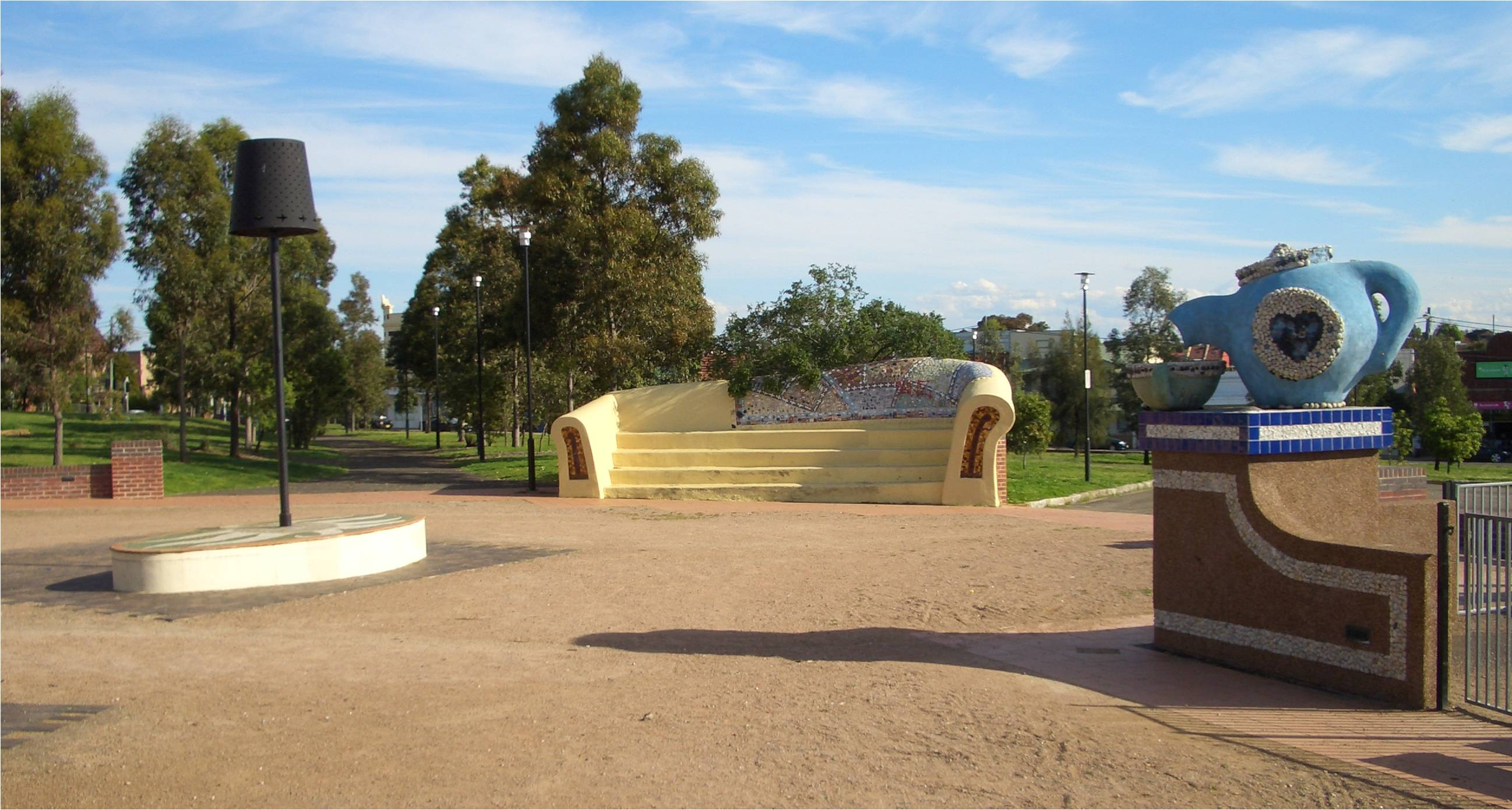 Sydenham Green Park in the Sydney suburb of Sydenham, New South Wales.